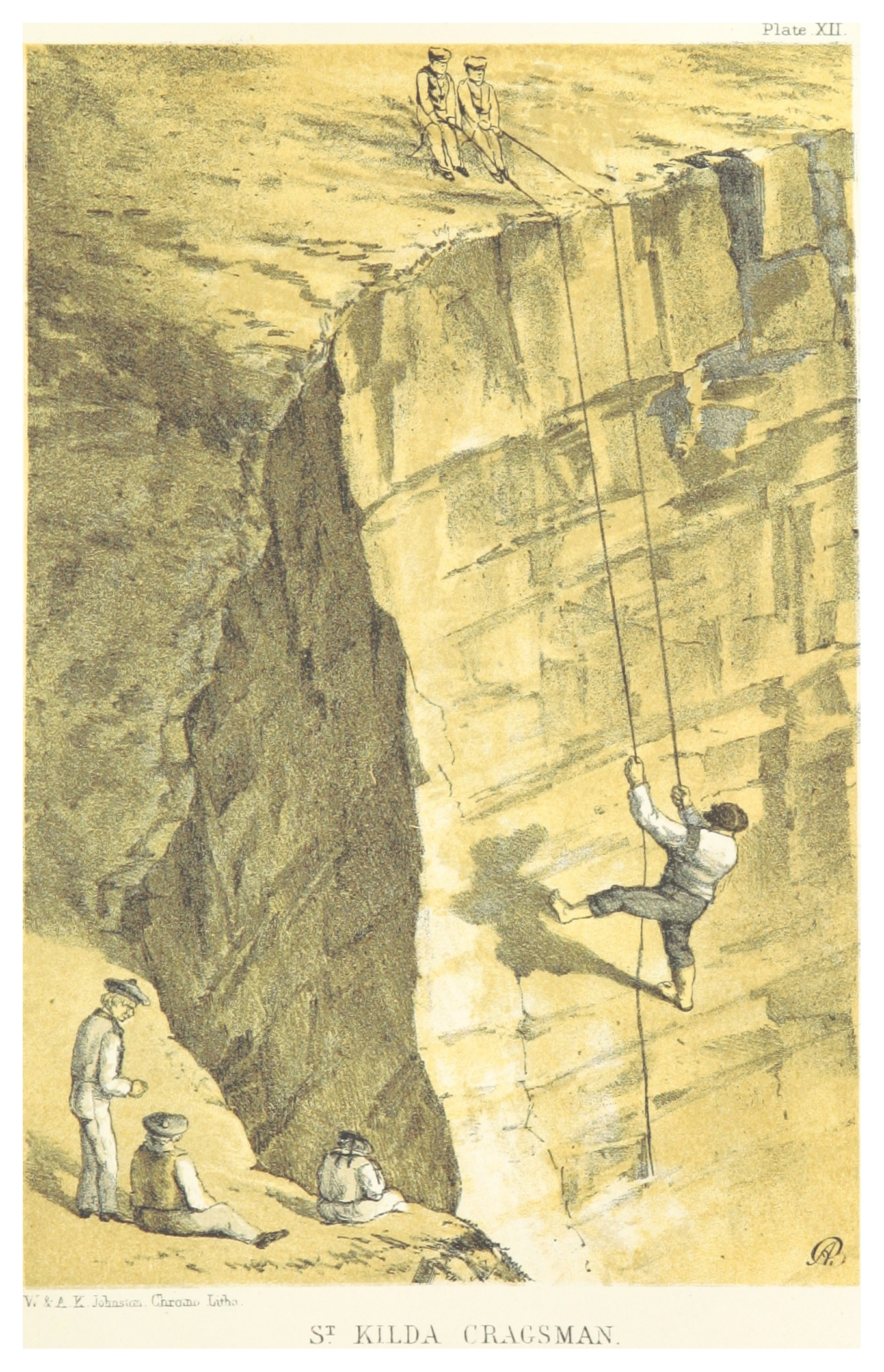 St Kilda Cragsman— from a sketch by Mr. Carlyle Bell